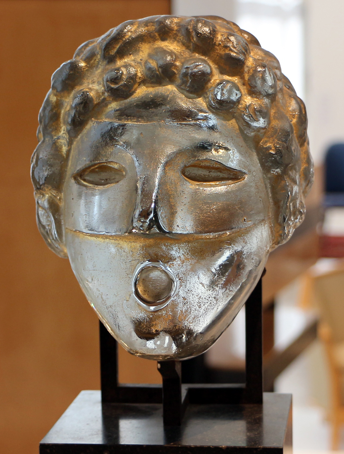 Collections of the Musée d'Art Moderne de la Ville de Paris